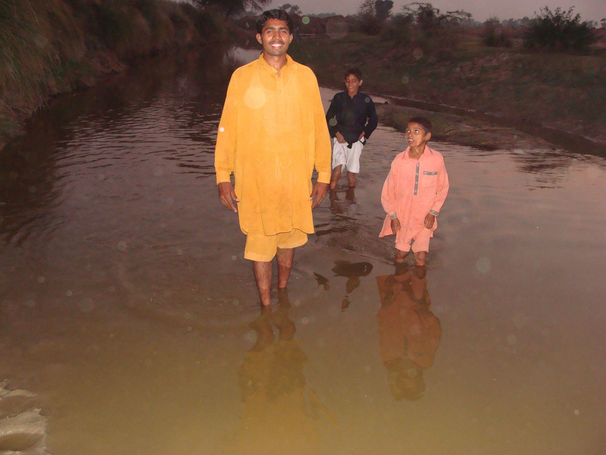 View of river Bias in sunari wala